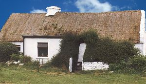 The house of Tom Lenihan in Knockbrack, Milltown Malbay before the renovation